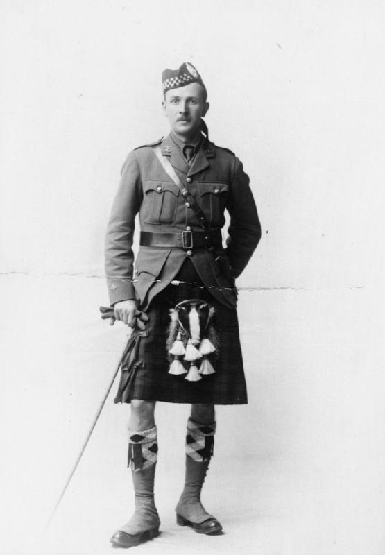 11 Battalion, Argyll and Sutherland Highlanders Lt Dickerson was killed in action, aged 32, at Loos on 14 July 1916. He is commemorated on the Loos Memorial. Faces of the First World War Find out more about this First World War Centenary project at This image is from IWM Collections. The Museum released this image on a custom licence - IWM Non-Commercial license. However where the photograph has no known author, these are public domain under the 70 rule and where they were owned by the Ministry of Information, any other government department or agency, taken by a member of the military during their service or by a photographer commissioned by the services, these are now out of copyright restriction.